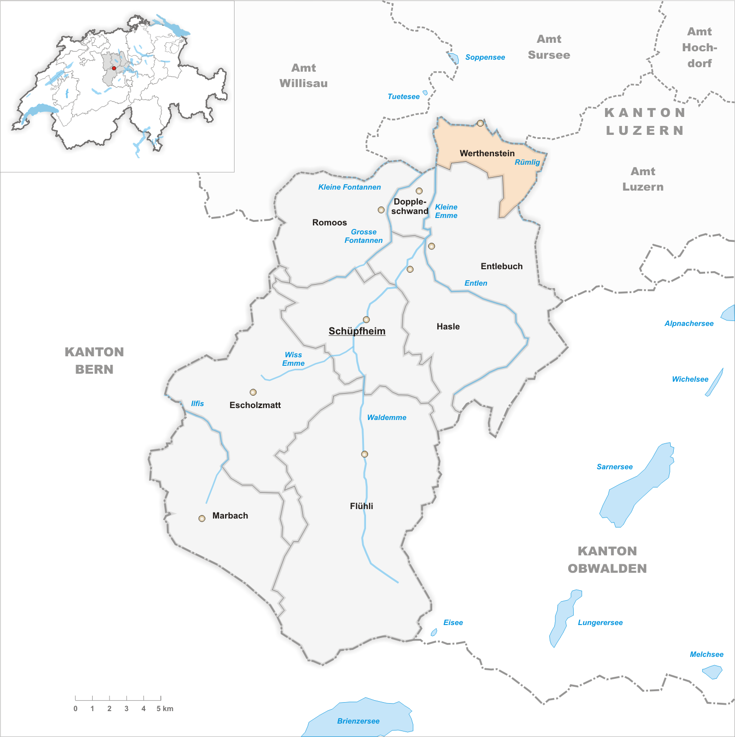 Municipality Werthenstein